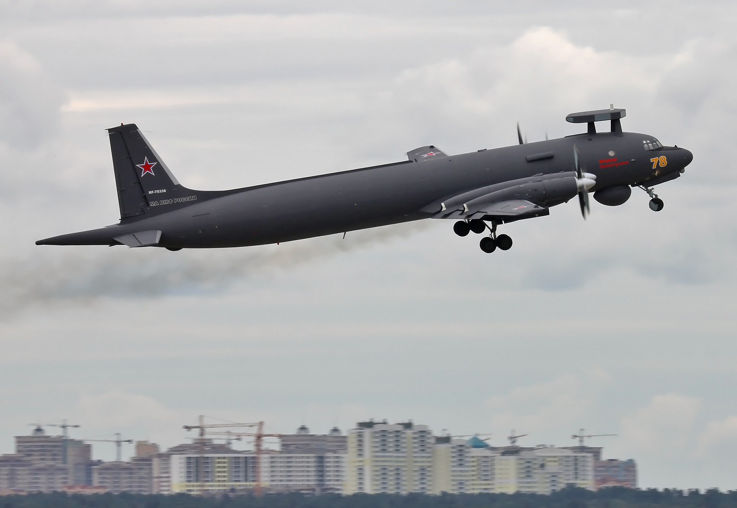 Russian Navy Ilyushin Il-38N taking off at Zhukovsky